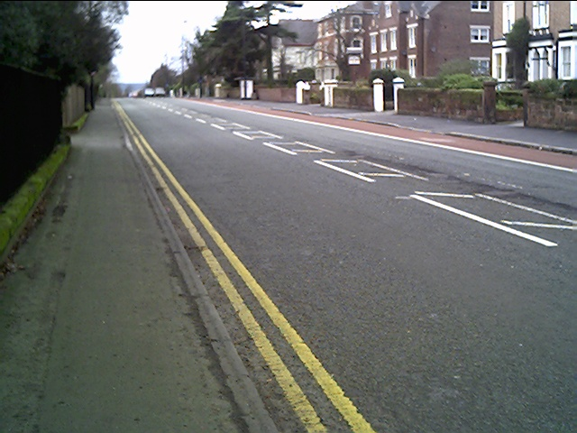 Hough Green, Chester, A5104. A5104